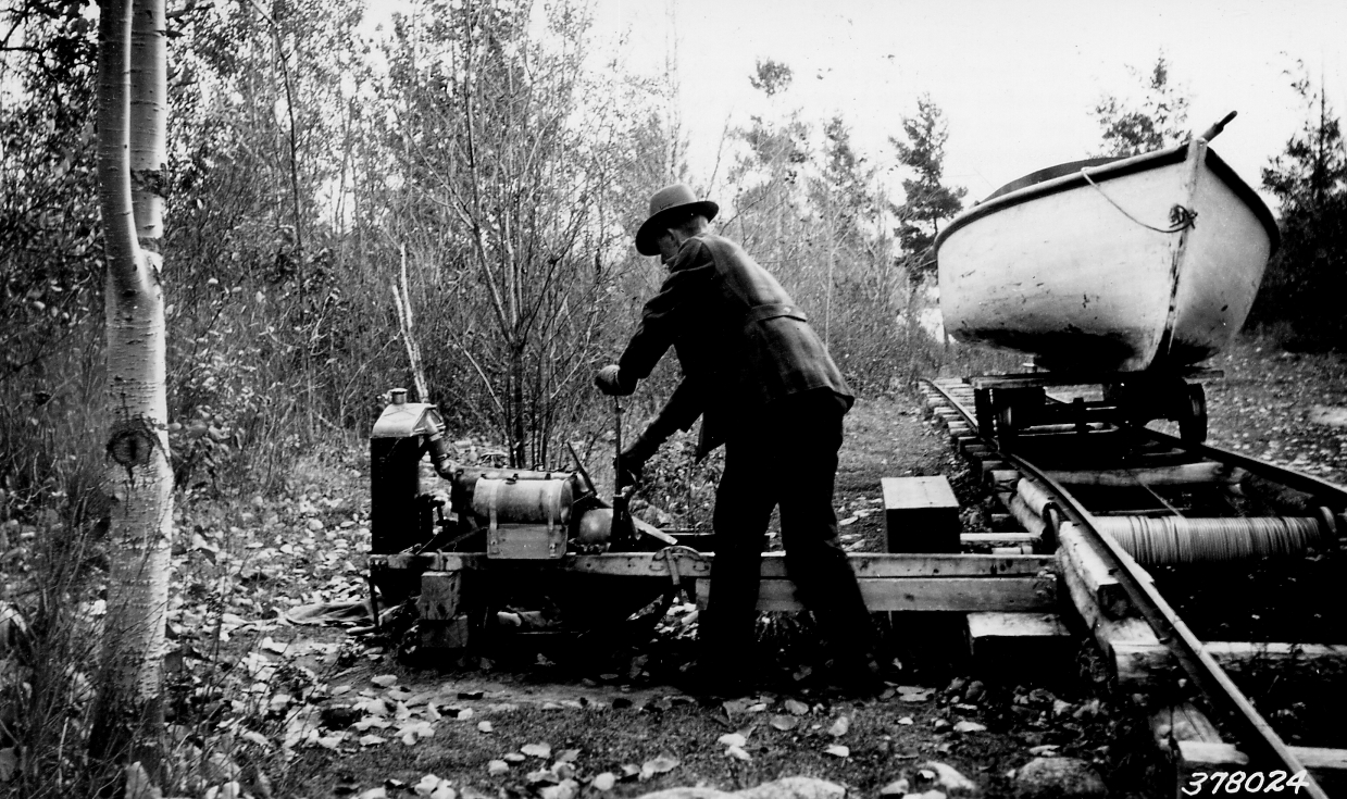 Scope and content: Original caption: Railroad portage -- Loon Lake to Lac la Croix.